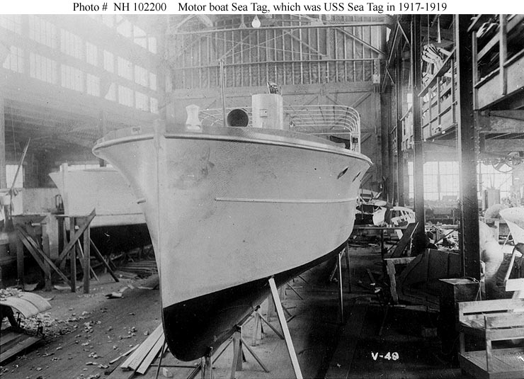 The motorboat Seatag, photographed in a boat shed probably around the time of her completion in 1917, prior to her United States Navy service as the patrol vessel .